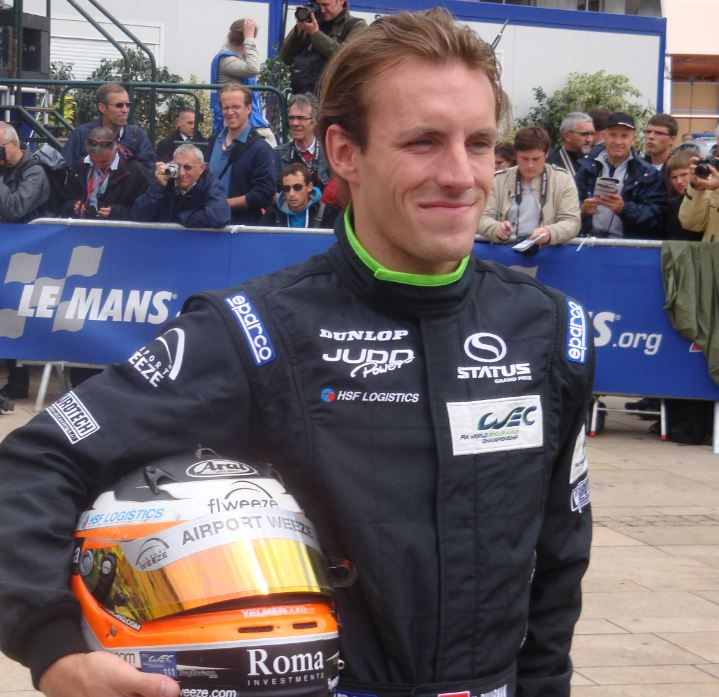 Yelmer Buurman au 24h du Mans 2012